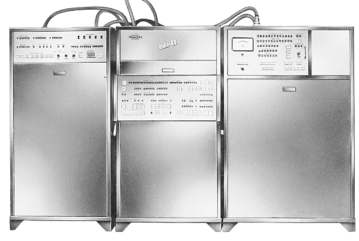 Photos of the CER-11 military digital computer at M. Pupin Institute, Belgrade archive. Autor: Dusan Hristovic, dipl. ing. See E-mail permission: . This photos was published in the book: "50 Years of Computing in Serbia (Hronika Digitalnih Decenija)" p.38, DIS, IMP,PC Press, Belgrade 2011. I was also coauthor of this book and I declares "Public domain" for this CER-11 photos.